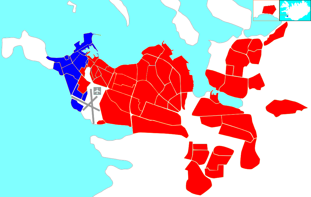 Locator map of the district Vesturbær (blue) within the municipality of Reykjavik (red).